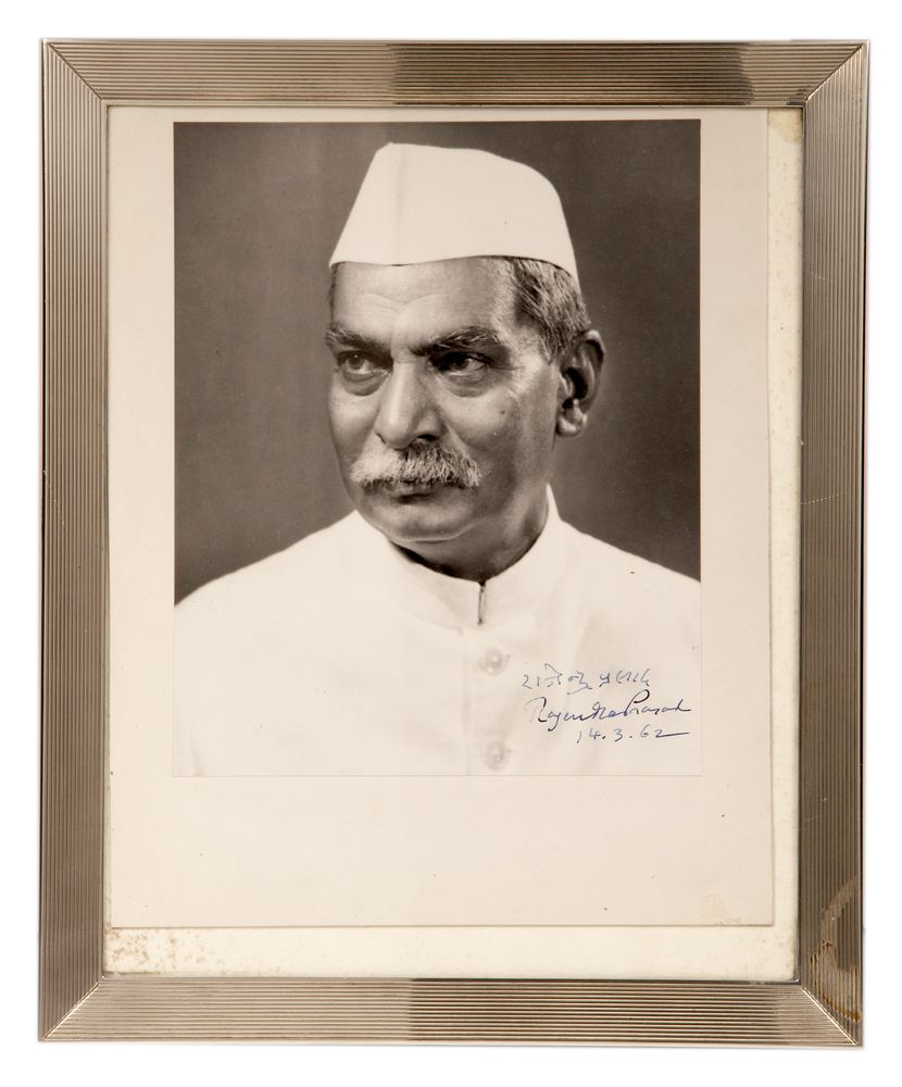 Date(s) of Materials:March 14, 1962 Medium:Photograph, silver Dimensions:Framed: 13 1/4" x 11" Description:Black and white portrait photograph of President of India Rajendra Prasad. Photograph is in a silver frame. Historical Note:Photograph was presented to President Kennedy by Dr. Rajendra Prasad, 1st President of India (1952-1963), in March of 1962.